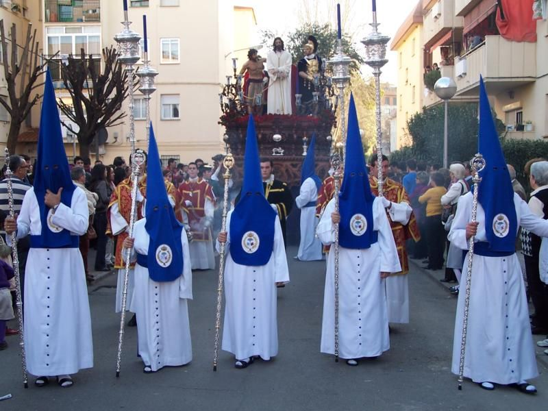 Presidencia Hermandad del Prendimiento Domingo de Ramos